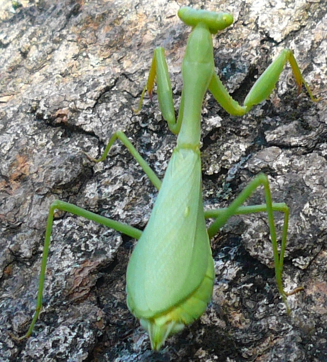 Mantis. Goverment Avenue, Cape Town. RSA.